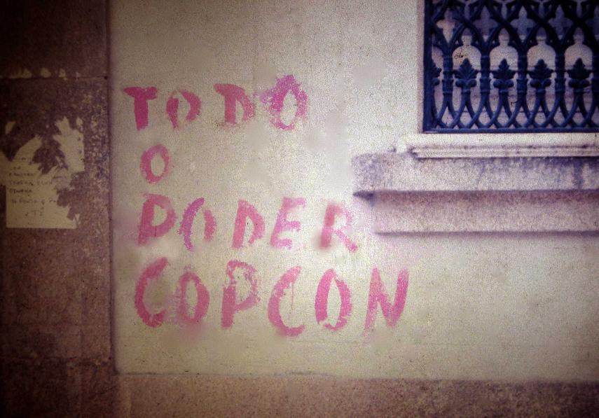 All the power COPCON